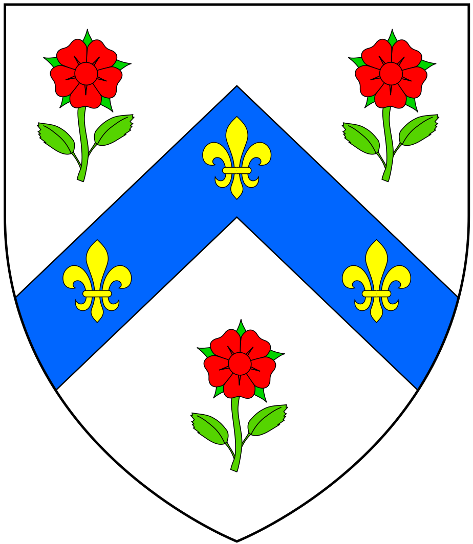 Arms of Cope of Hanwell, Oxfordshire: Argent, on a chevron azure between 3 roses gules slipped proper 3 fleurs-de-lys or (John Burke, Bernard Burke, General Armory of England, Scotland, and Ireland)